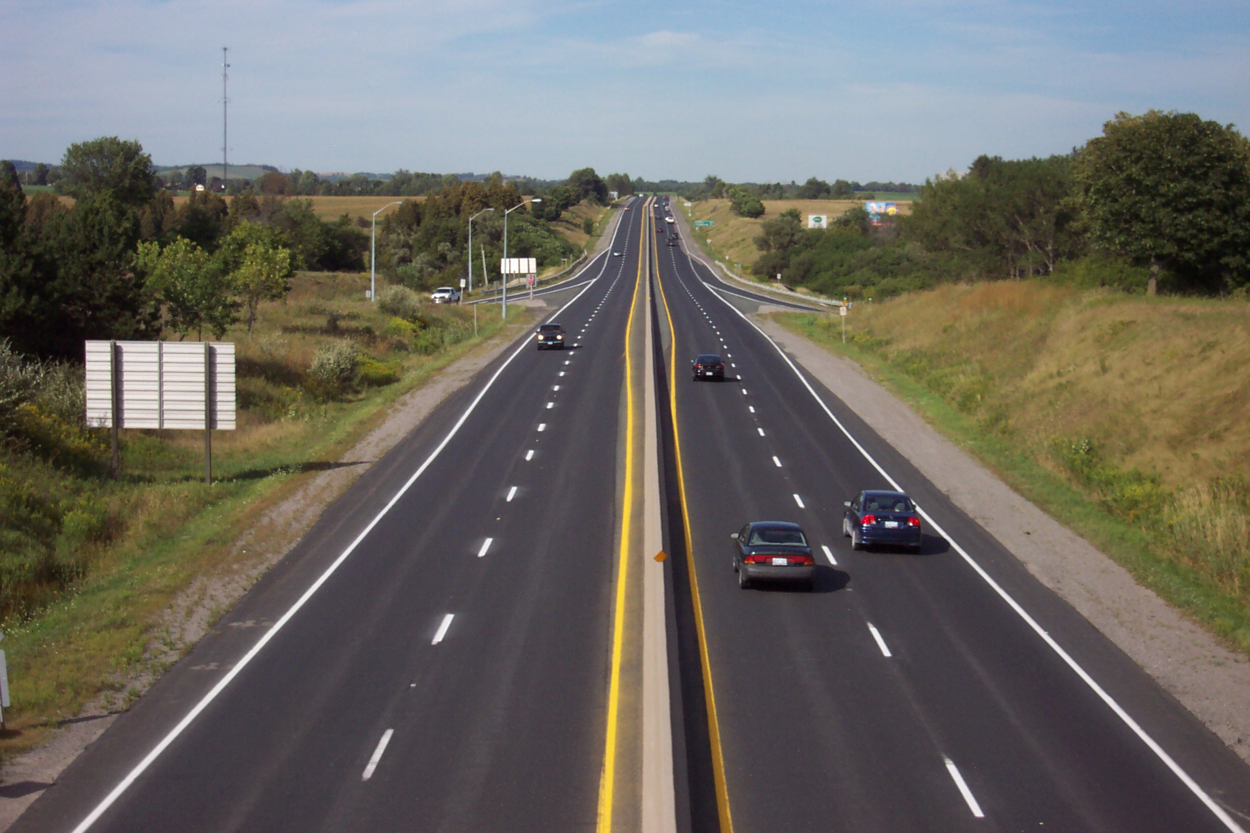 Ontario Highway 115/35 looking north from Durham Region Highway 2 bridge